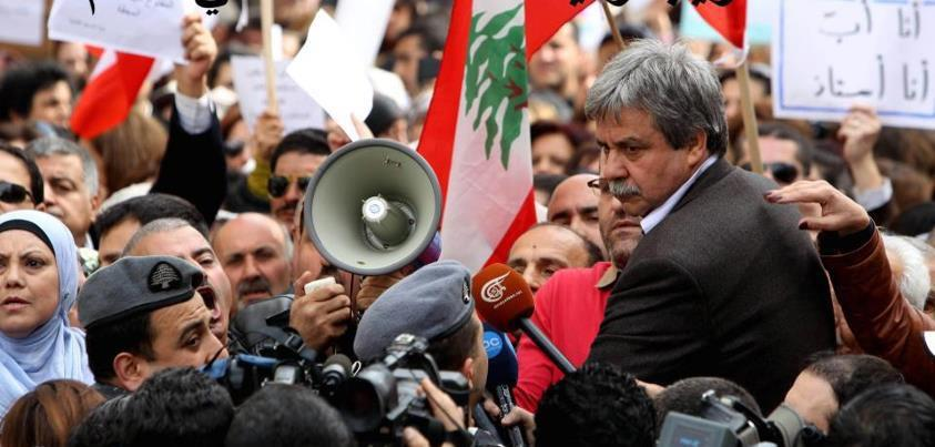 During a demonstration for wages and rights of teachers and public employees in 2013